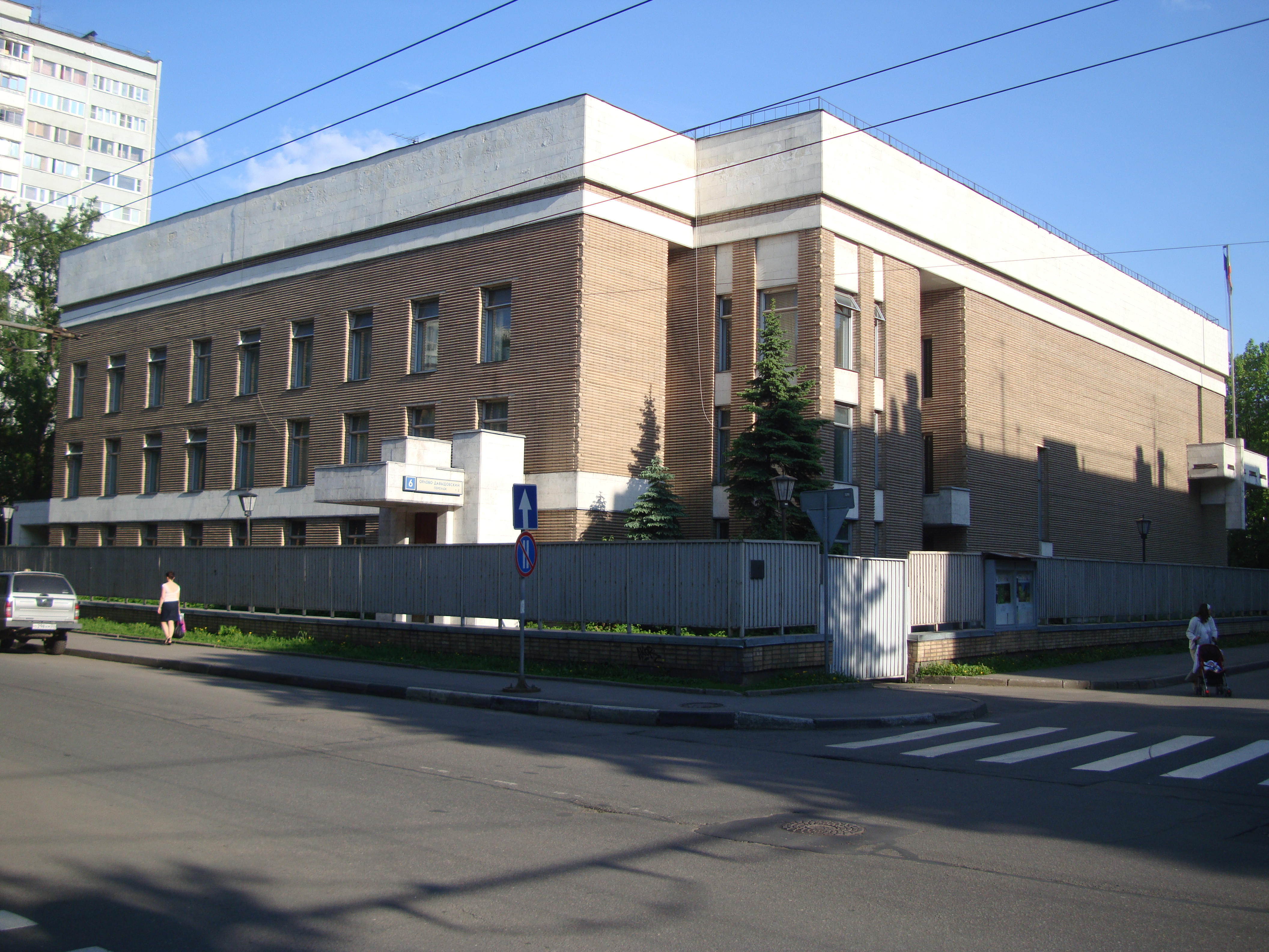 6 Orlovo-Davidovskiy Lane, Meshchansky District, Moscow, Russia. Embassy of Ethiopia. Орлово-Давыдовский переулок, д.6, Мещанский район, Москва, РФ. Посольство Эфиопии.